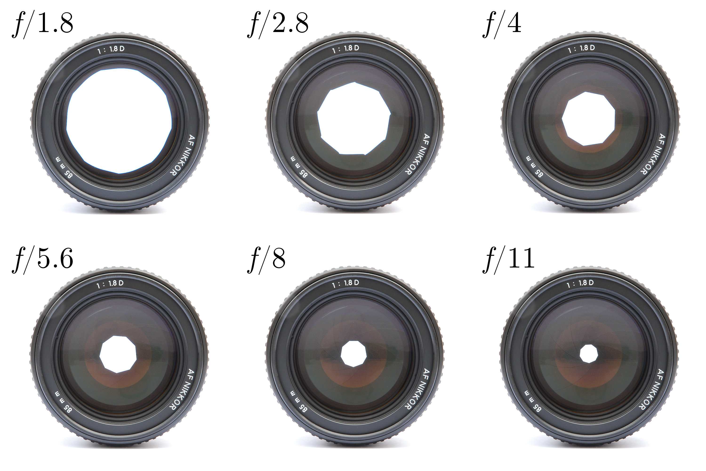 This picture shows a lens with a focal length of 85 mm at different aperture stops. The aperture diameter lies between 8 mm (= 85 mm/11) and 47 mm (= 85 mm/1.8), the values are rounded.